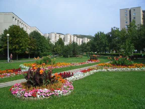 Gardens in Budaors, Hungary